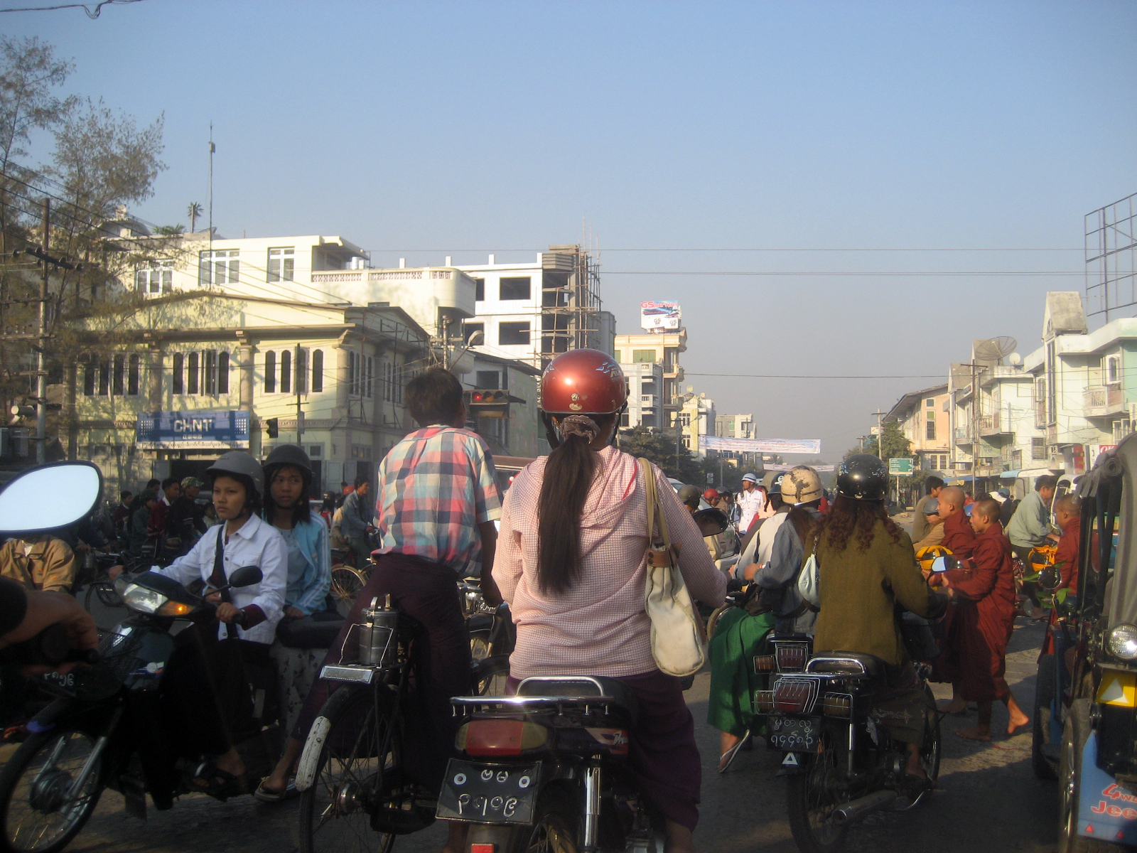 Busy street junction in Mandalay, Myanmar